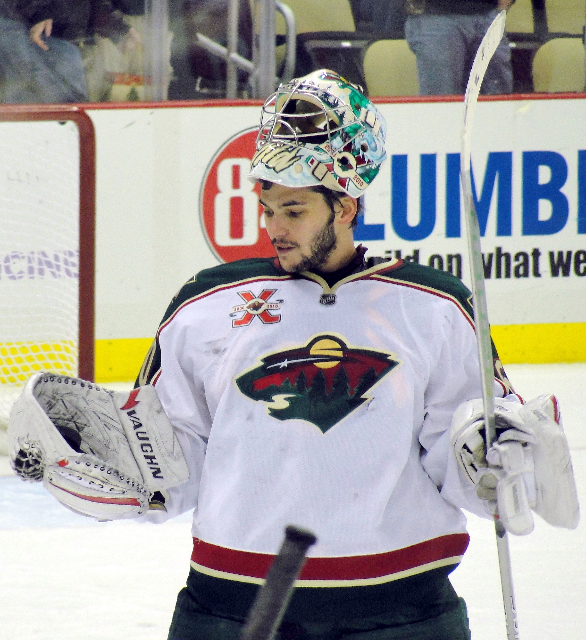 Minnesota Wild goaltender José Théodore following a 4-0 shutout win over the Pittsburgh Penguins at Consol Energy Center in Pittsburgh, PA, January 8, 2011.